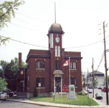 Waterloo, post office